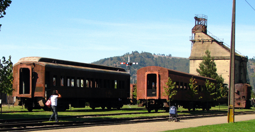 Pablo Neruda Railway Museum, Temuco, Chile